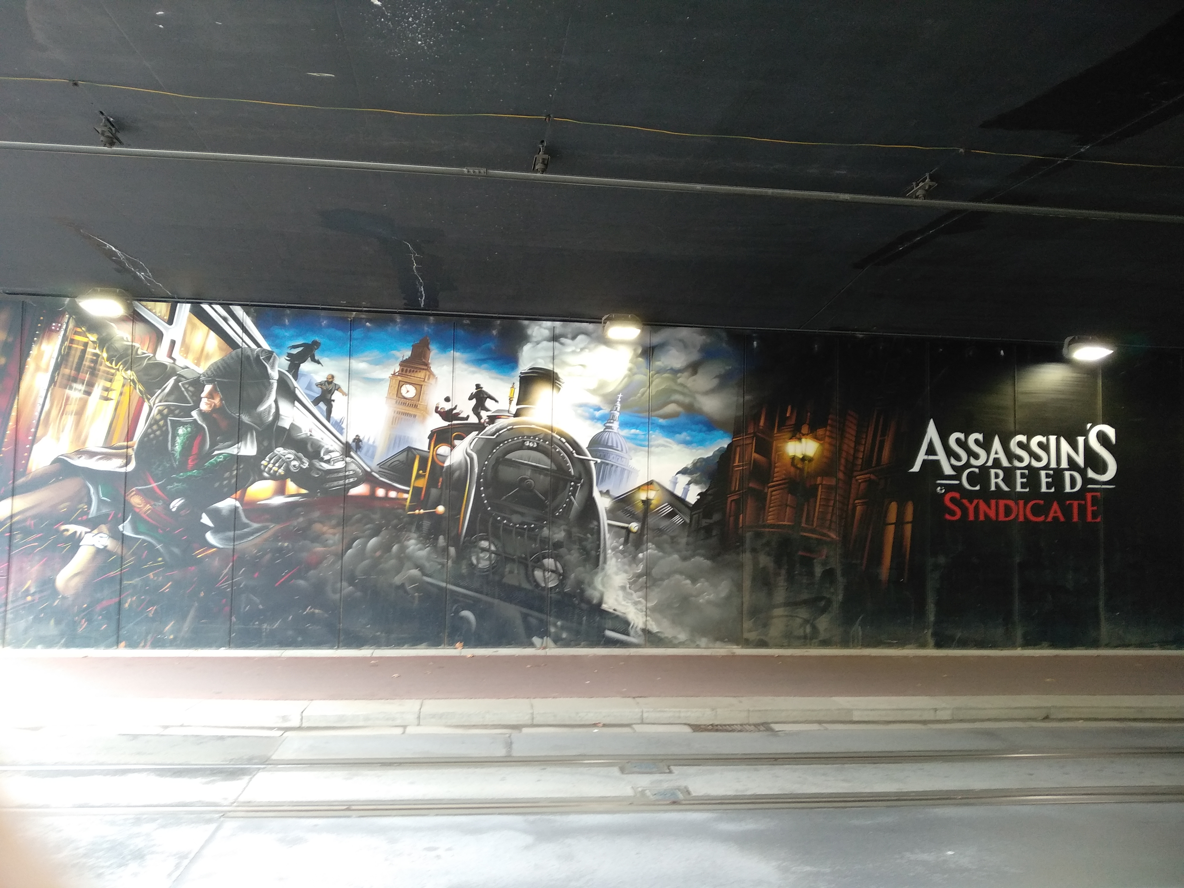 Wall graffiti in a Tunnel in the Guldenvlies Straat in Antwerp (Belgium)